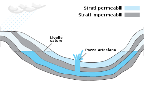 Diagram of an Artesian Well, italian text